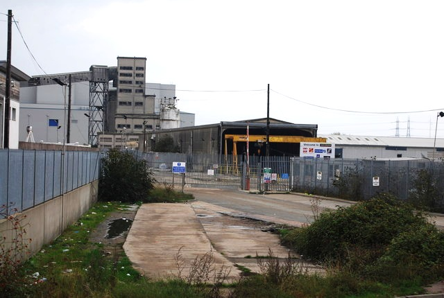 Industrial Area by the River Thames